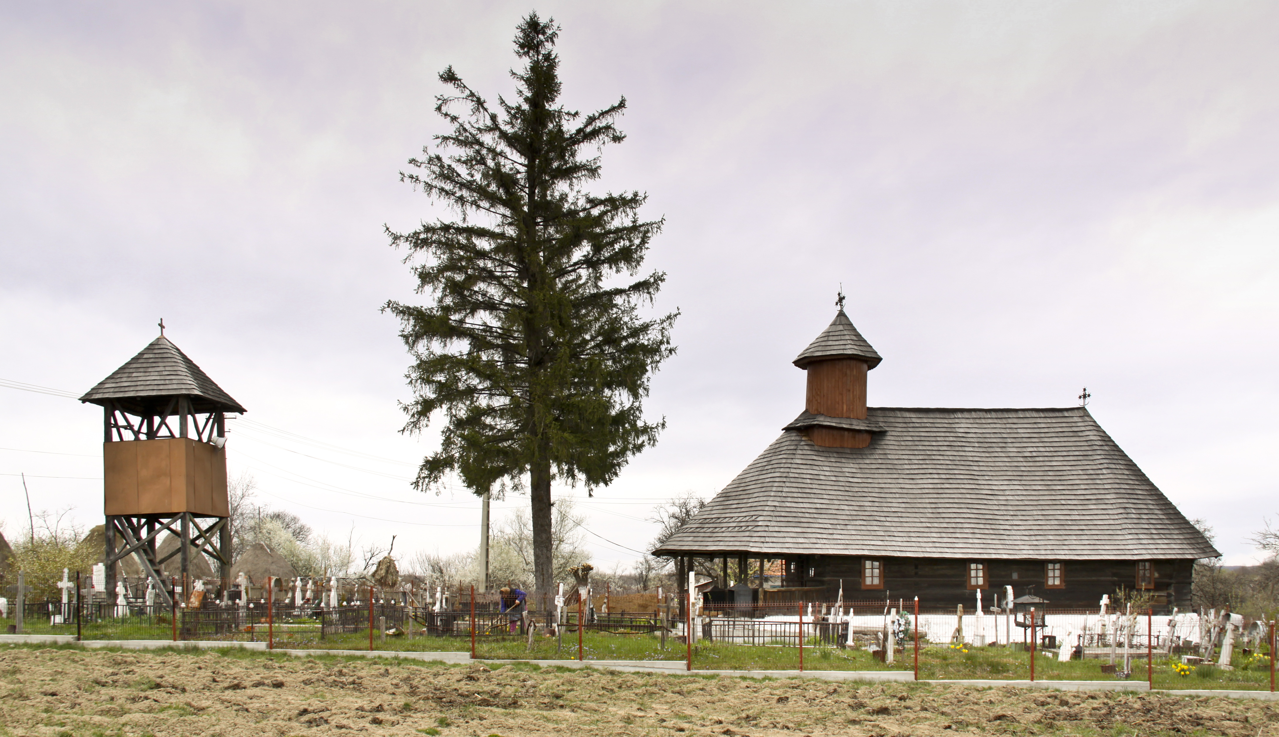 Wooden church in Morăreşti - Piscu Calului, Argeş county, Romania.